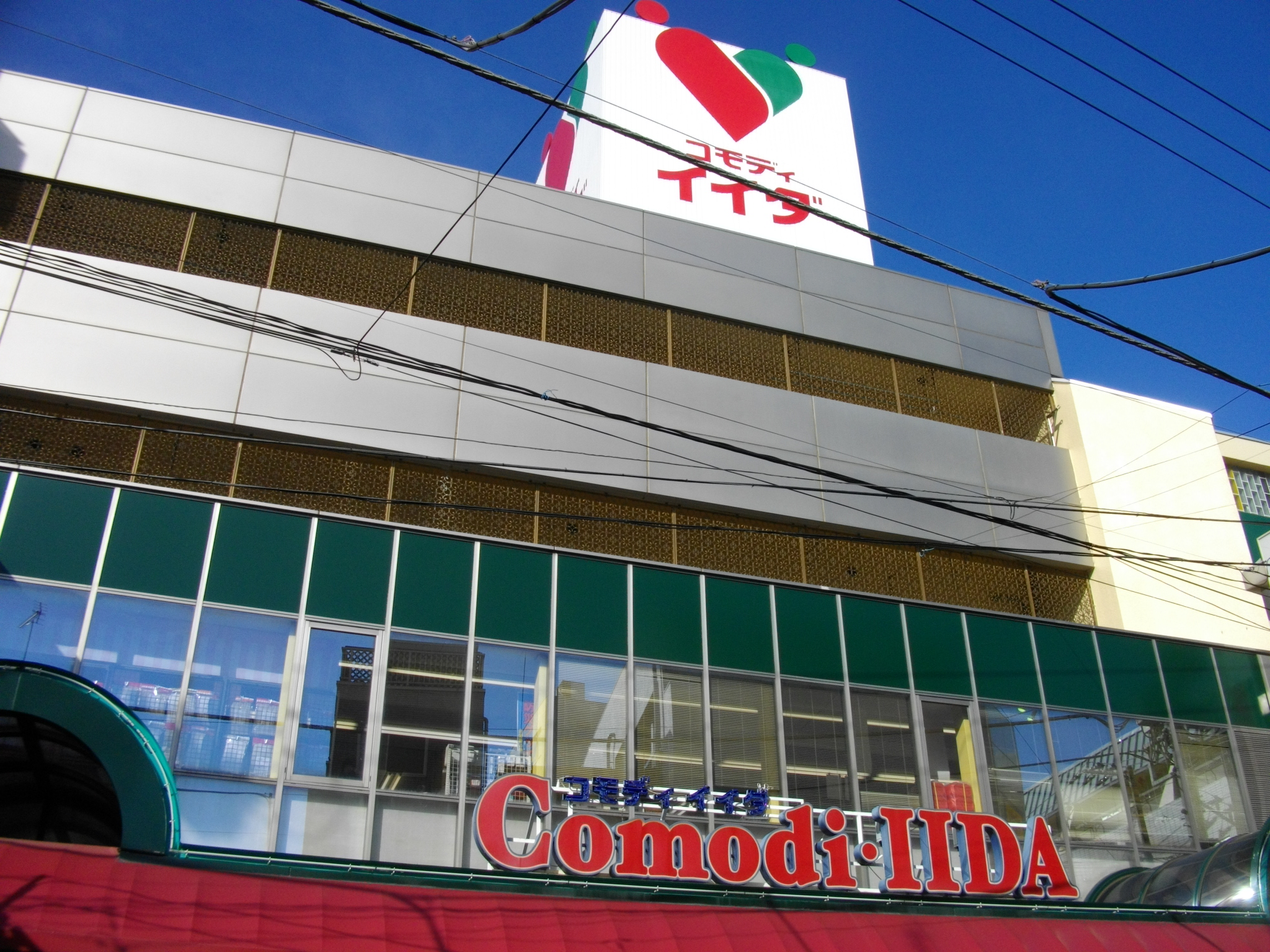 Comodi-iida Takinogawa Shop